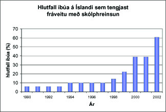 None